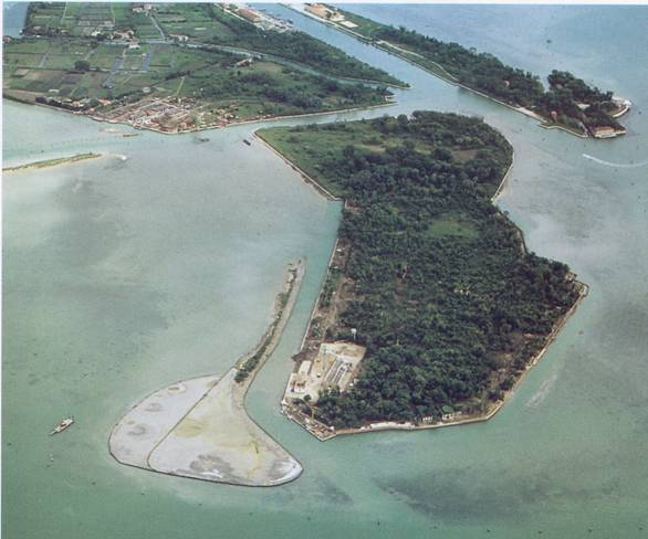 The island of La Certosa in the Venetian lagoon from the south. Part of the island of Vignole is visible to the north.